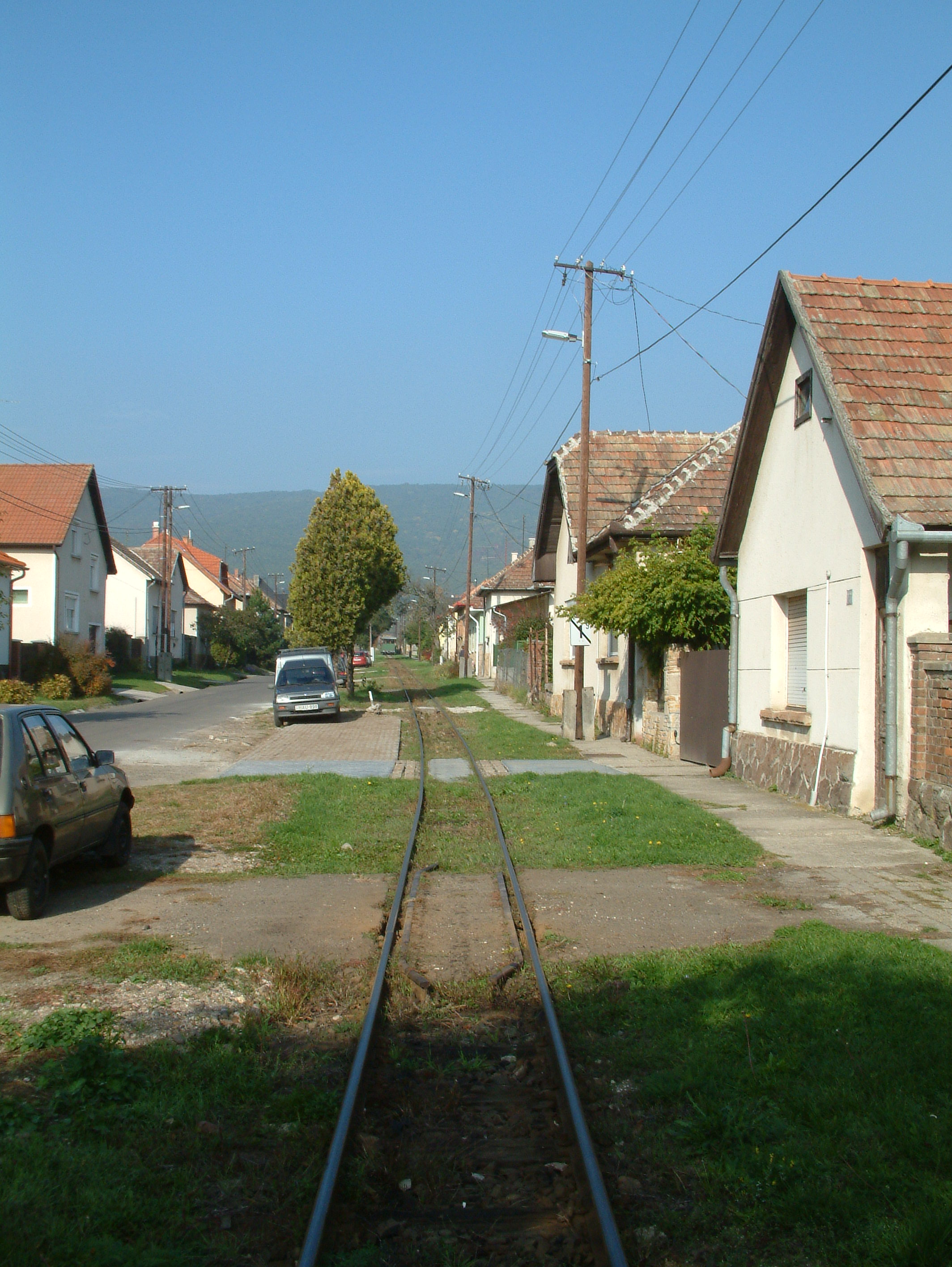 Track of Királyrét Forest Railway in Szokolya